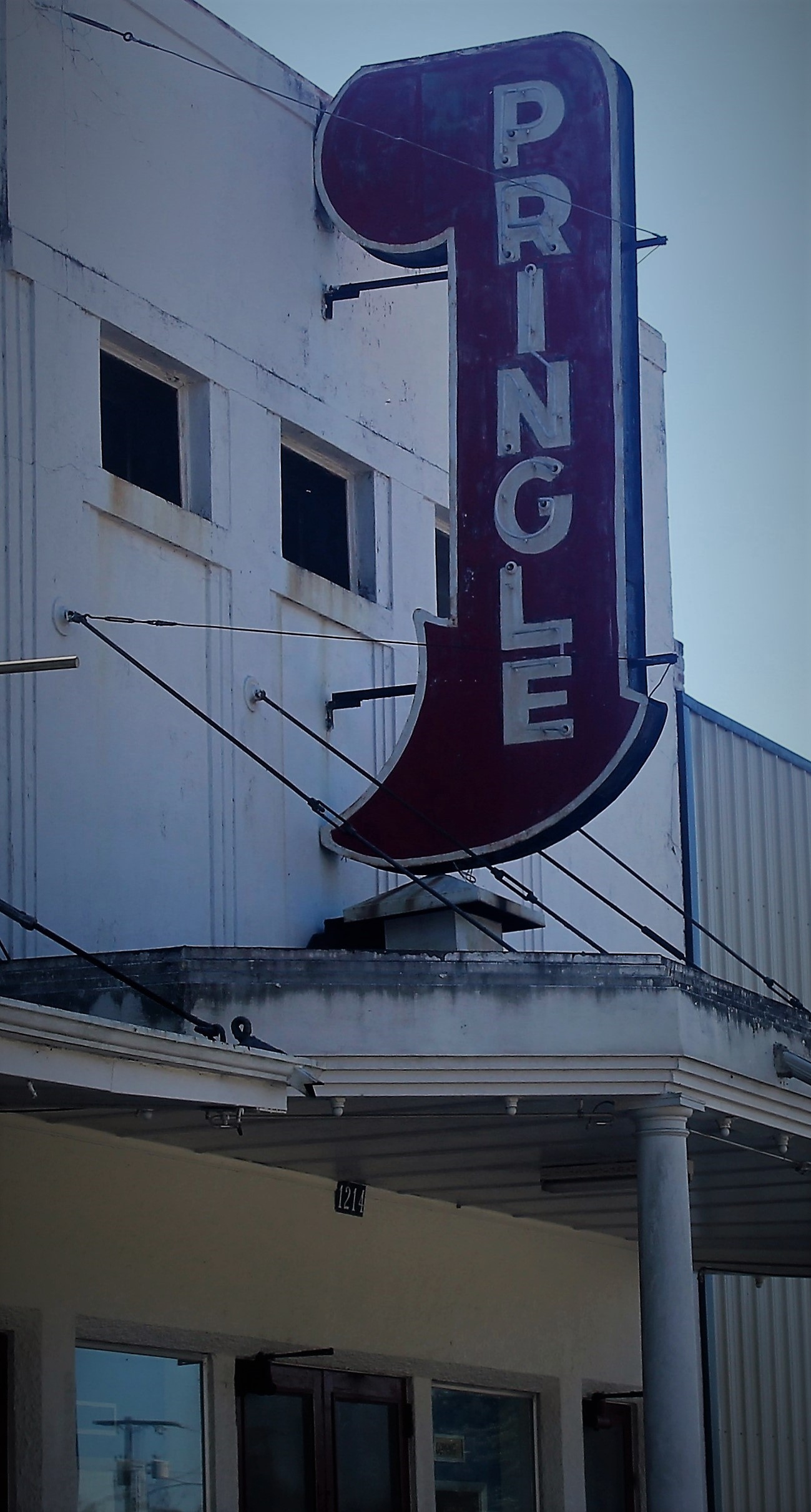 Pringle Theatre at 1214 7th Ave., Glenmora, LA, was an Art Deco building in its heyday. The theatre seated six hundred.